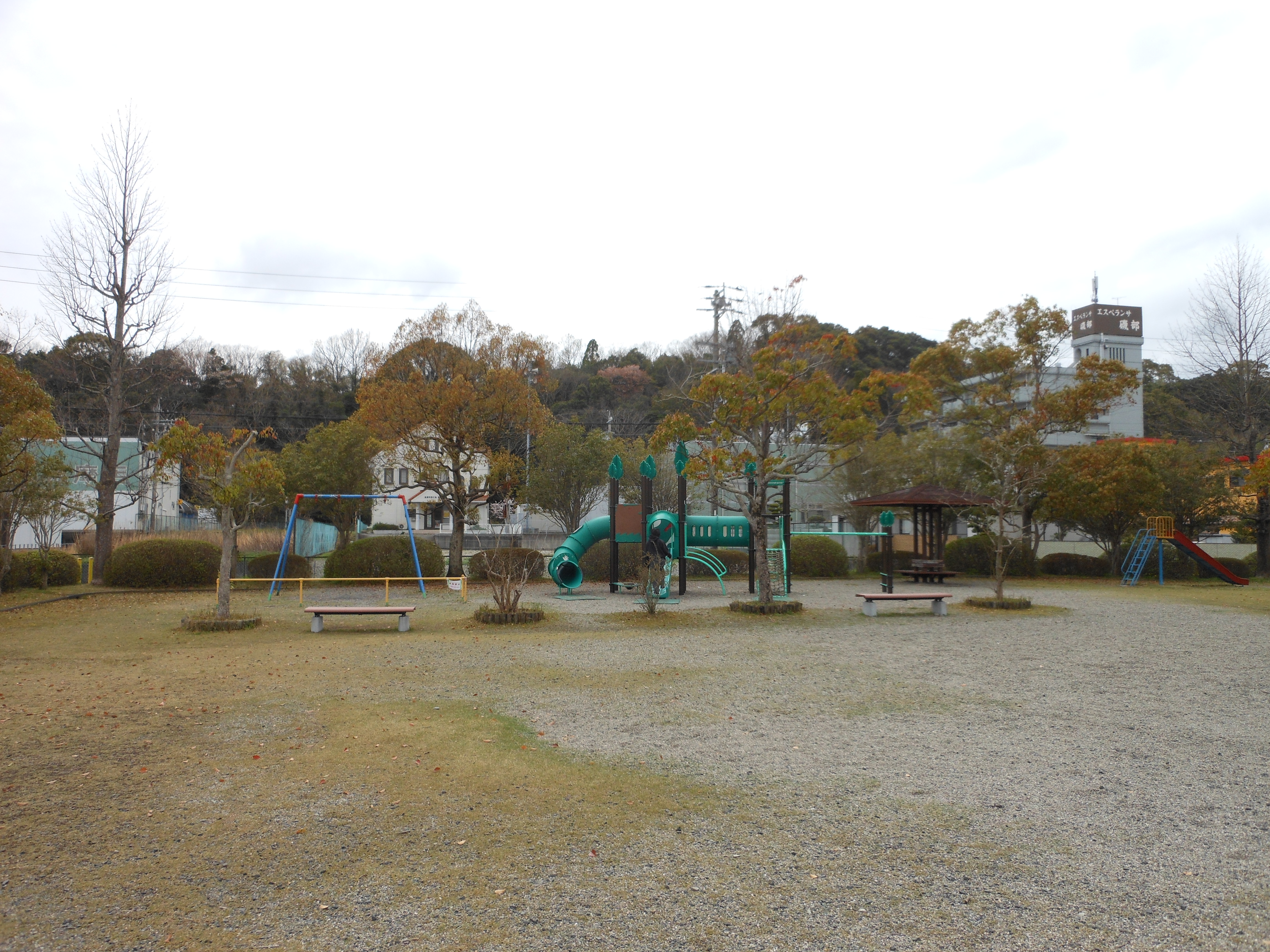 This is a scene of Kiba park, Shima city, Mie prefecture, Japan.